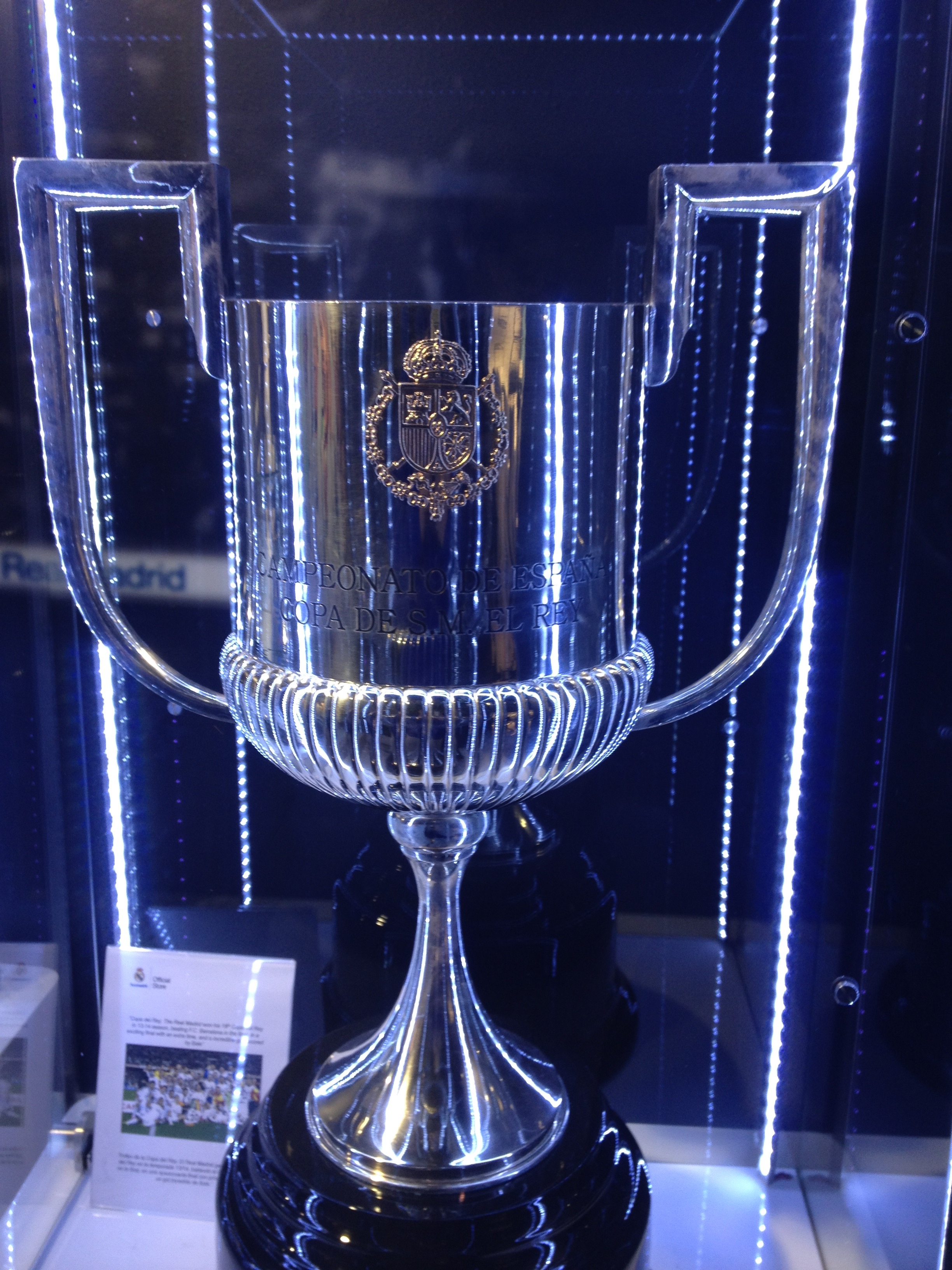 2013-14 Copa del Rey (King's Cup) trophy, won by Real Madrid, defeating FC Barcelona